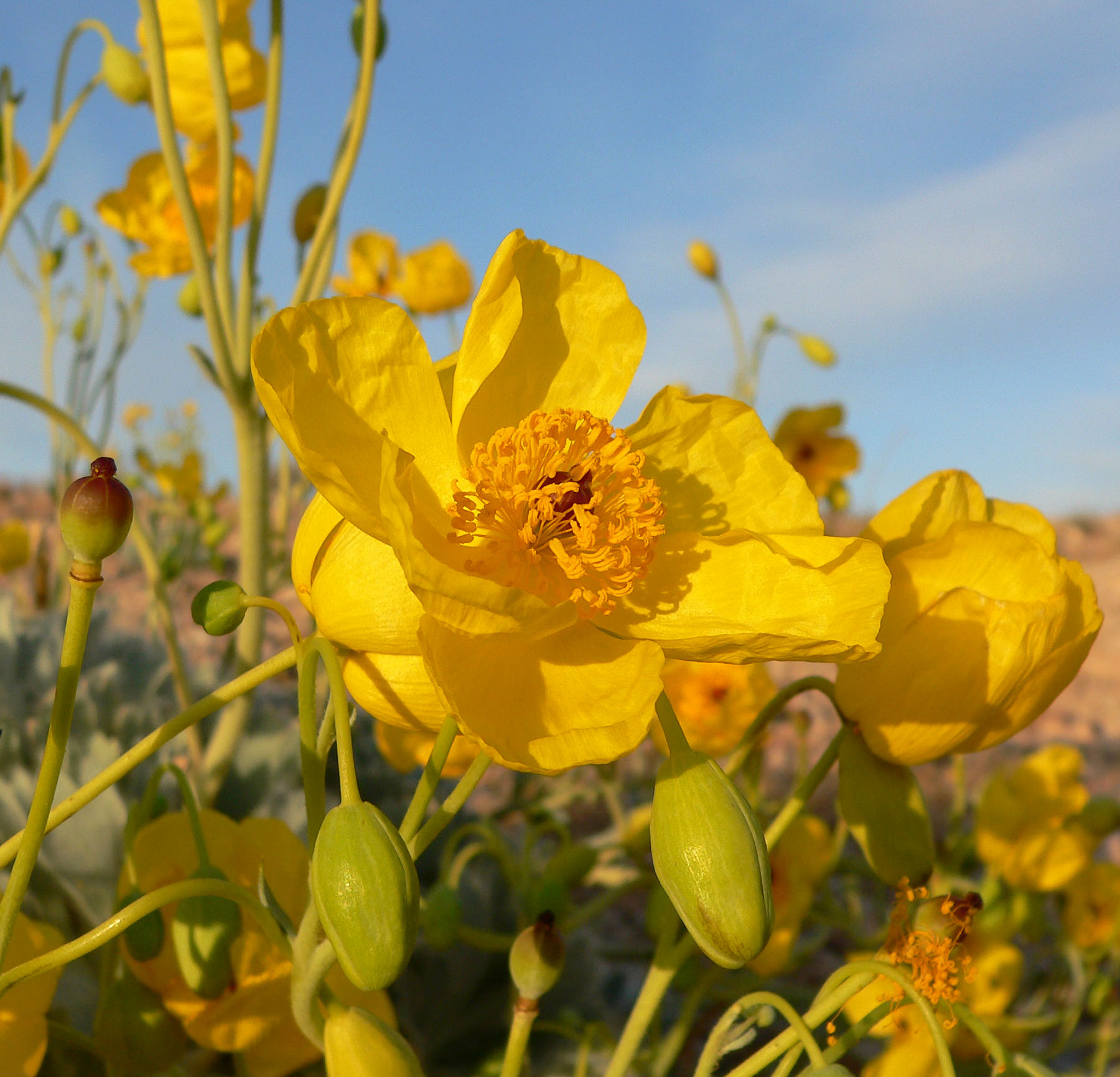 Arctomecon californica near where Lake Mead Blvd crosses Gypsum Wash, Lake Mead National Recreation Area, southern Nevada